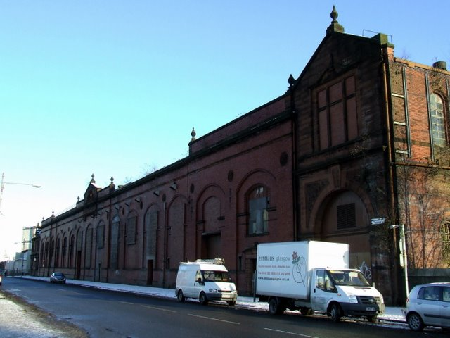 St Andrew's Works Derelict factory on Pollokshaws Road.